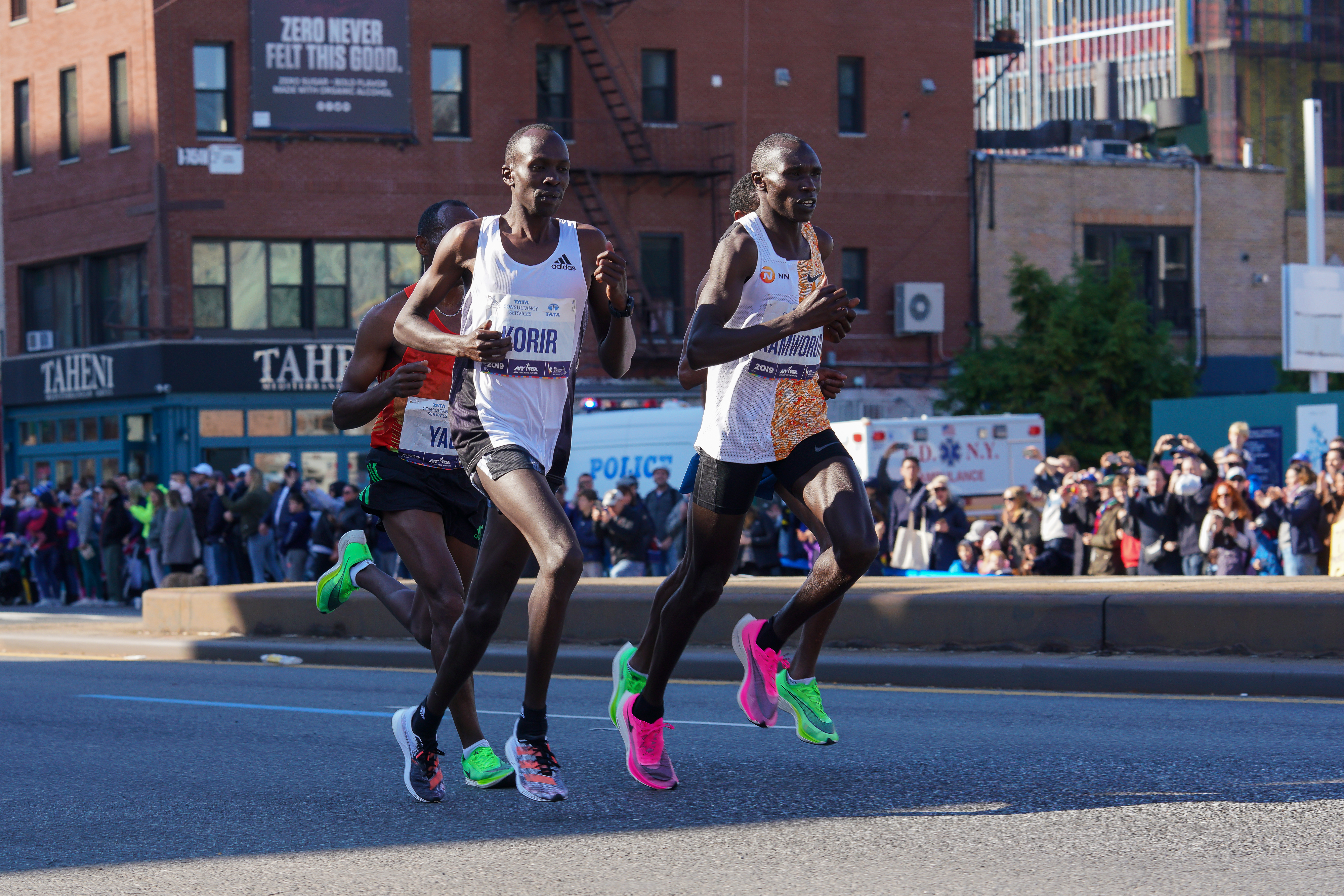 November 3, 2019 Along Fourth Avenue in Brooklyn The elite runners mens leaders.